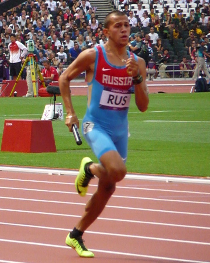 Athletics event — Olympic Park London 2012, 4x400 Metres Relay, Maksim Dyldin